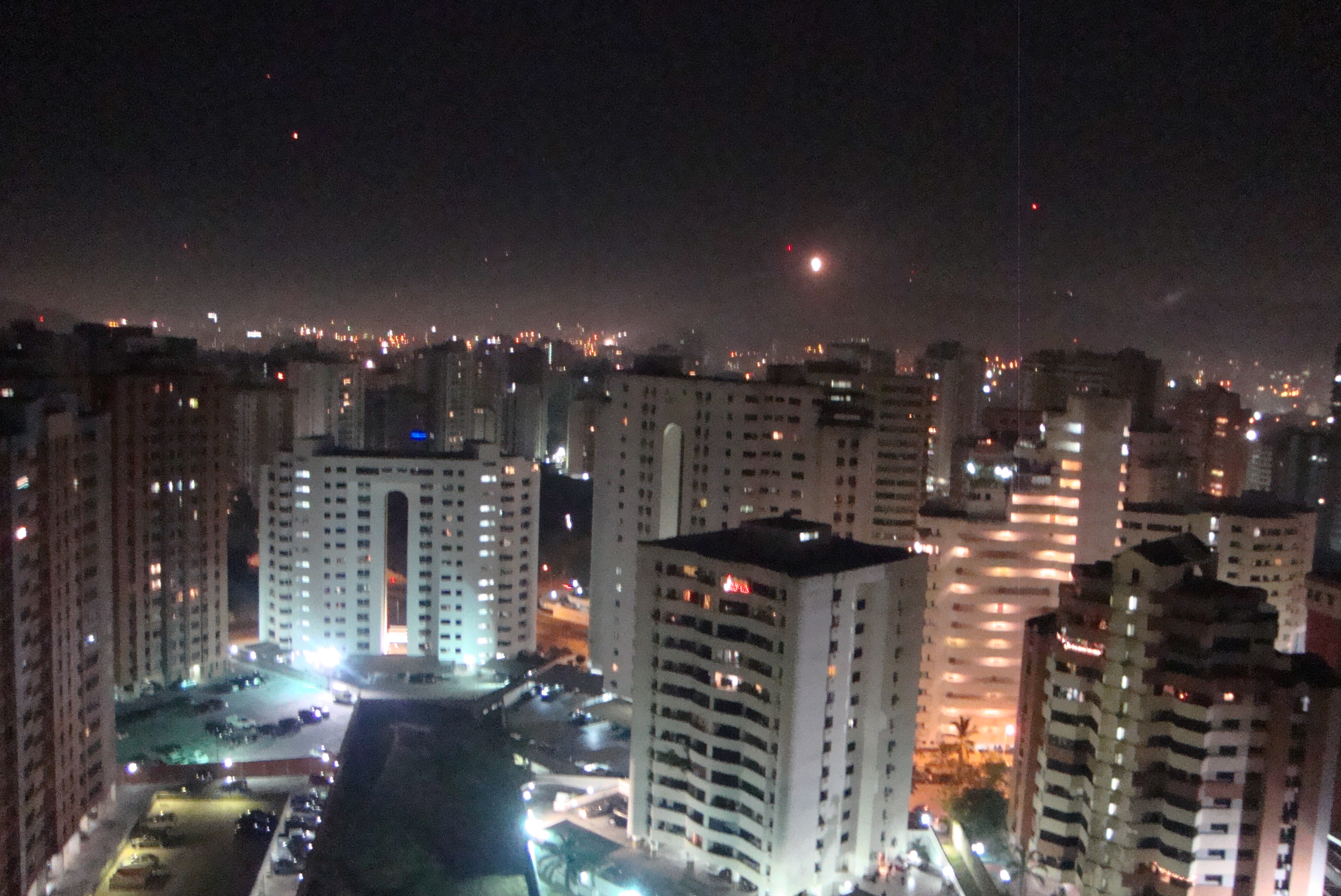 valencia nocturna vista despues de dia de reyes